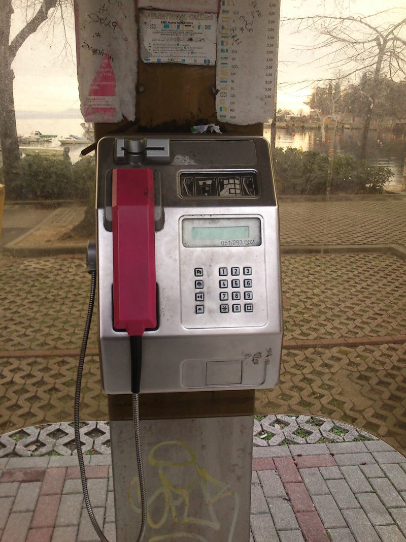 Modem phone booth from 2001.